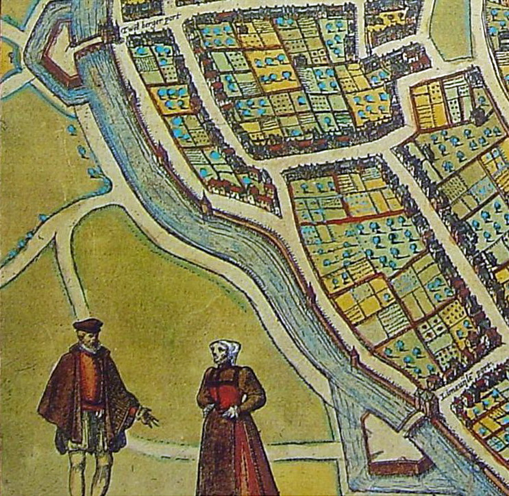 from Urbium praecipuarum totius mundi, detail of a map of Maastricht in 1581, Braun en Hogenberg